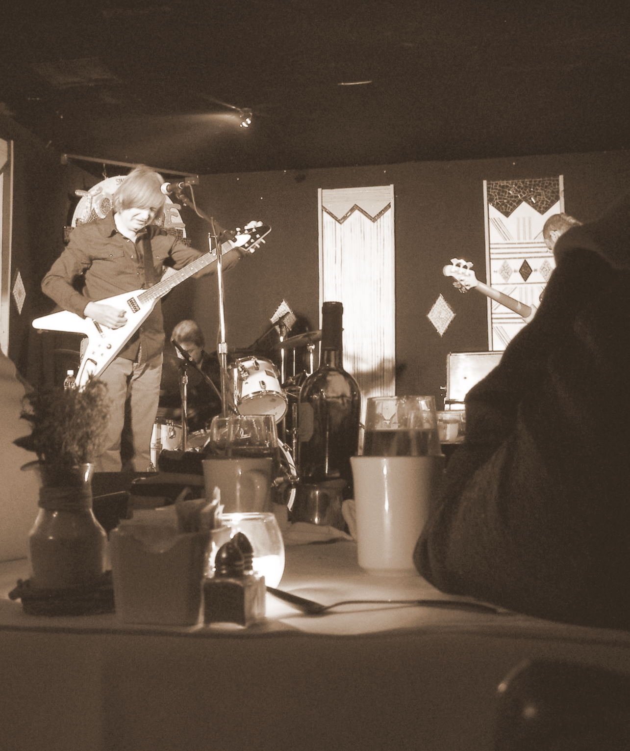 Savoy Brown (featuring Kim Simmonds)